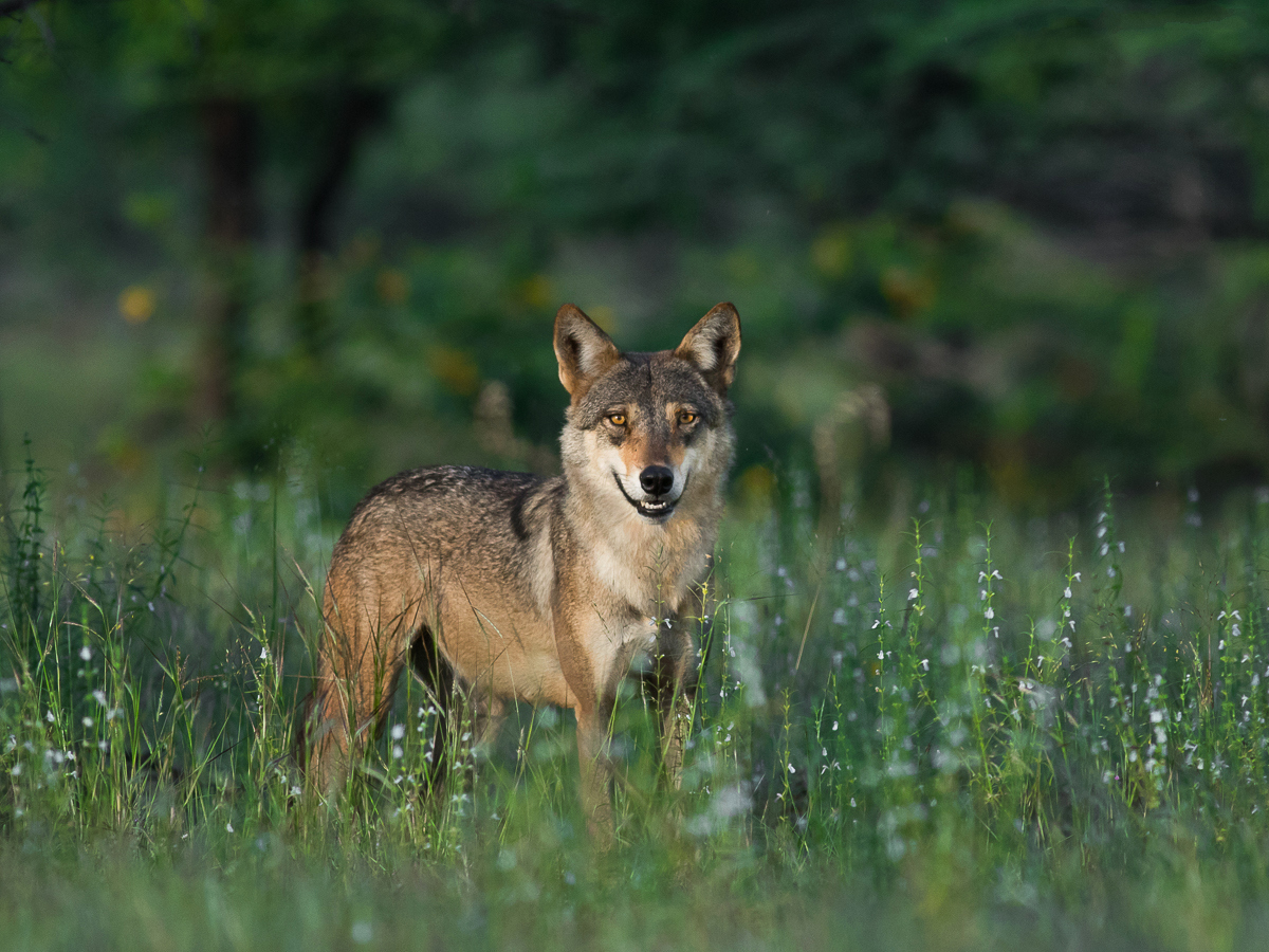 Clicked at Mayureshwar Wildlife Sanctuary, Pune - Maharashtra, India